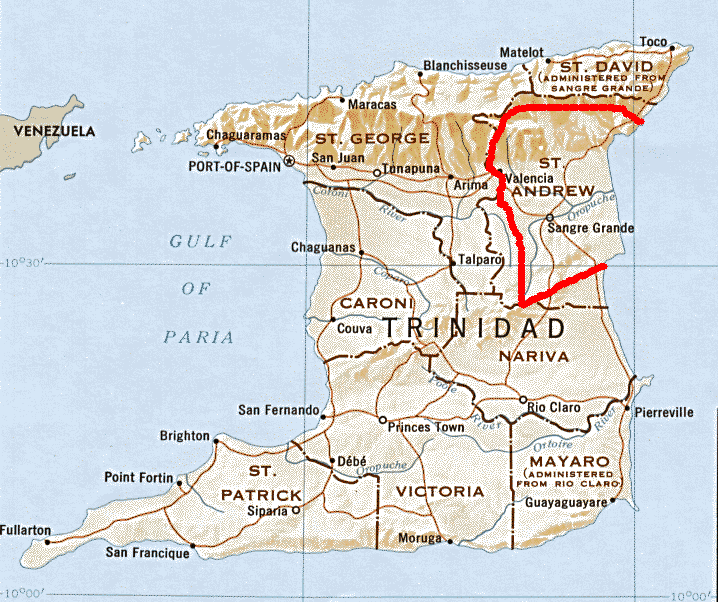 Map of Trinidad with the Range of Poecilia obscura (Oropuche-Drainage basin).